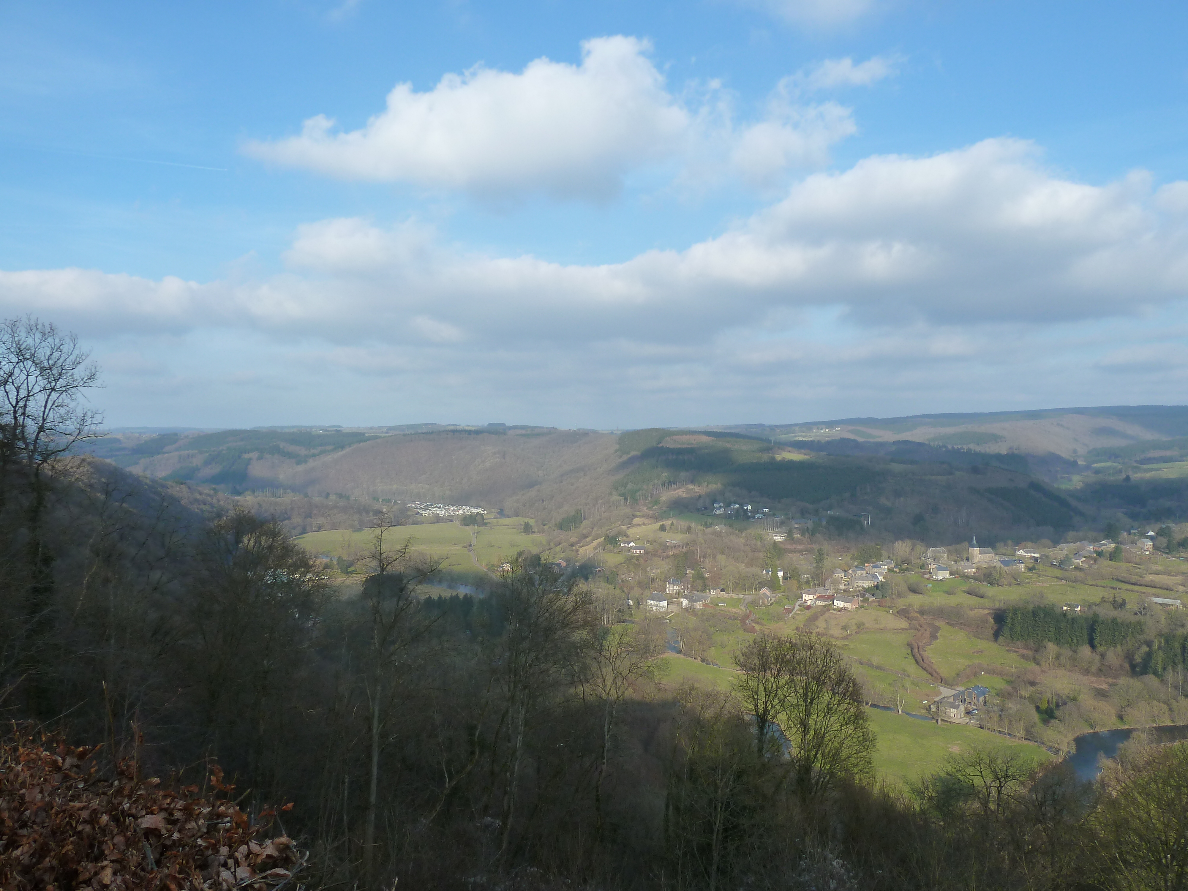 Hermitage and chapel of Saint-Thibaut, Marcourt, Rendeux, Belgium